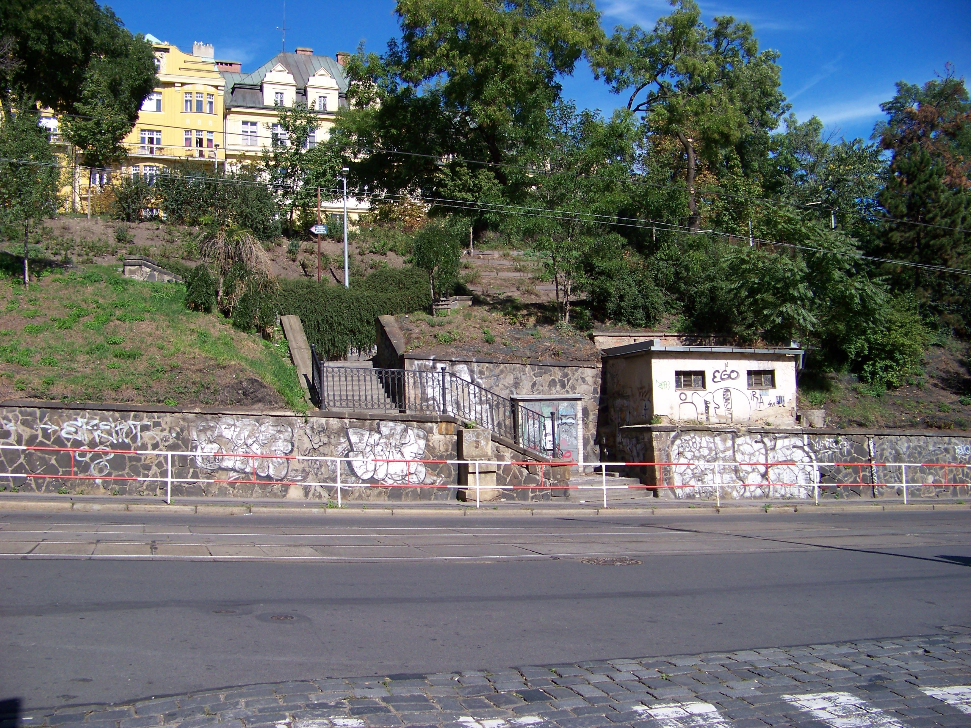 Prague-Vinohrady, the Czech Republic. Francouzská street, a staircase to Bezruč Park.